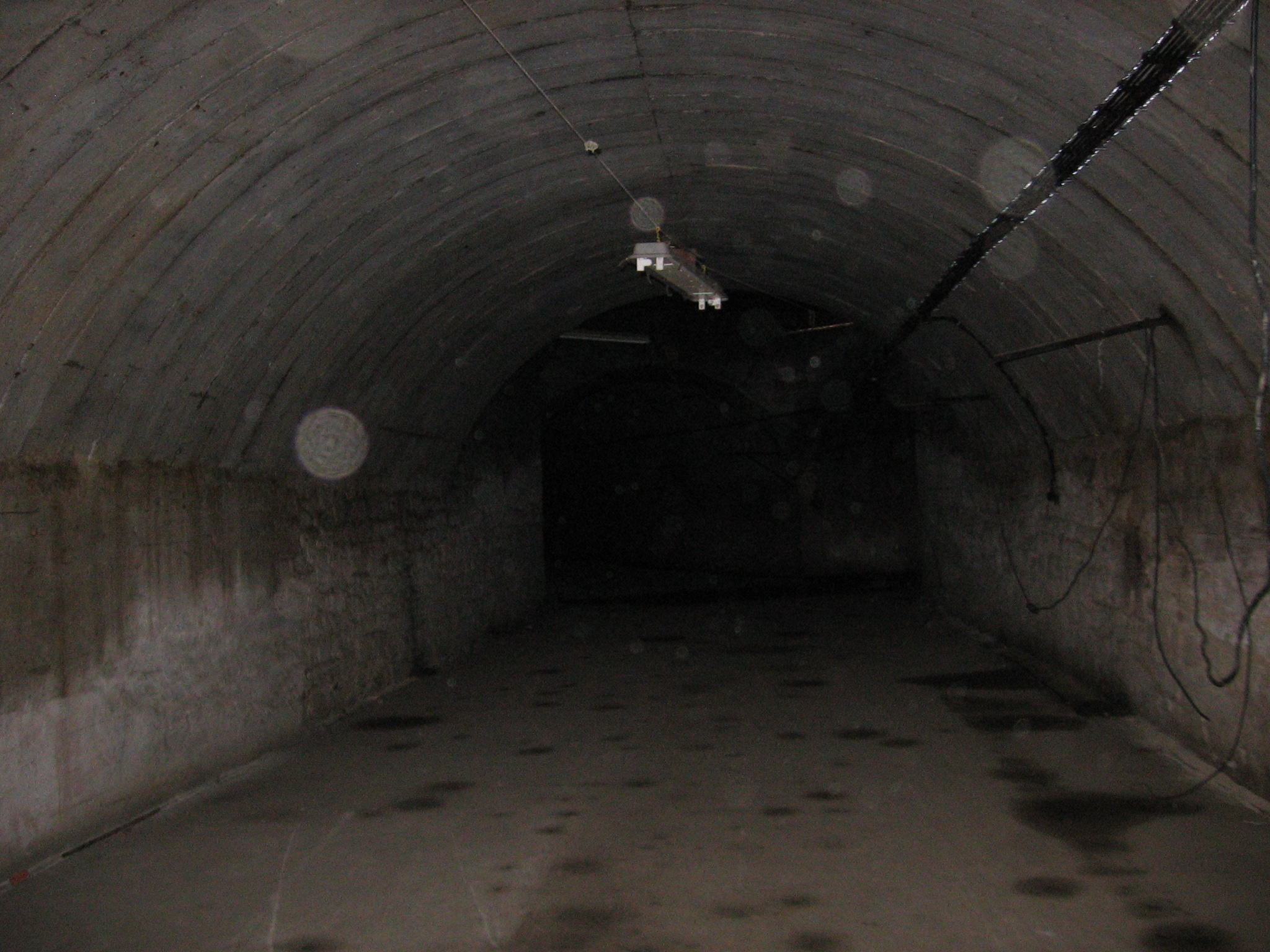 Rabštejn Underground Factory - tunnel in Werk B (near Česká Kamenice, Czech Republic)